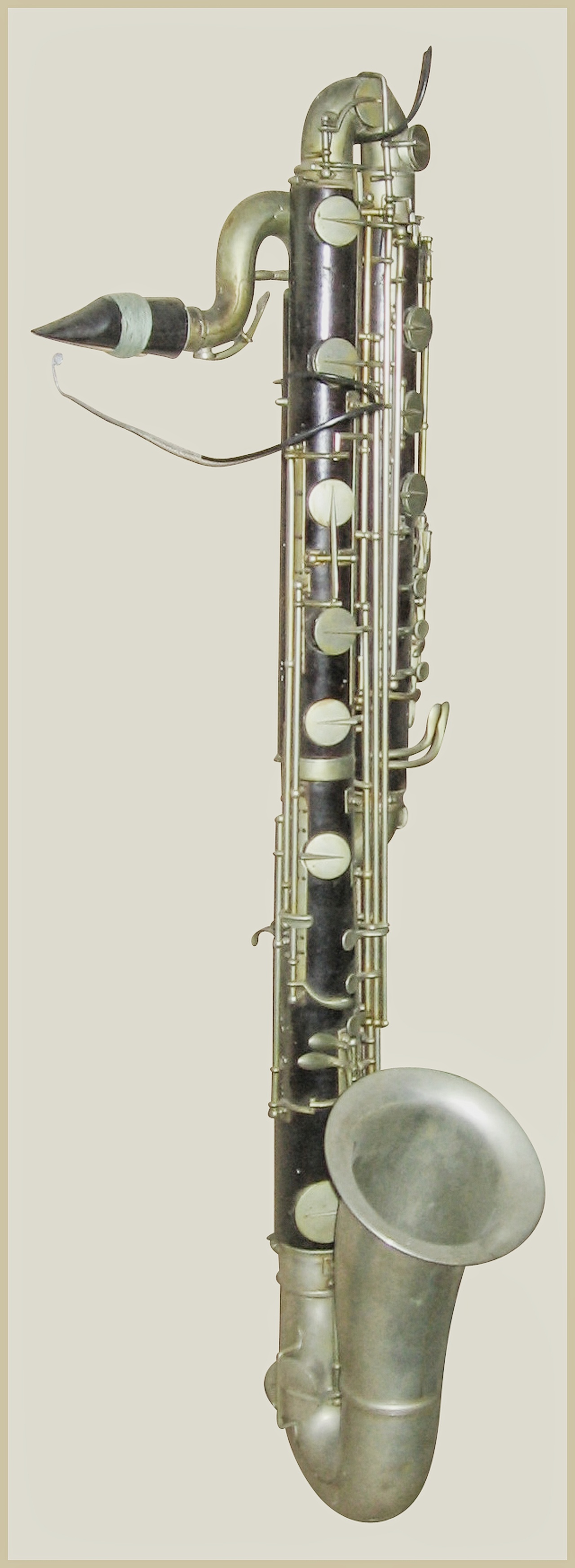 Contrabass or pedal clarinet in B♭, Fontaine Besson, London, post-1890, maple, Simple system. Photographed at the Bate Collection at the University of Oxford, England.